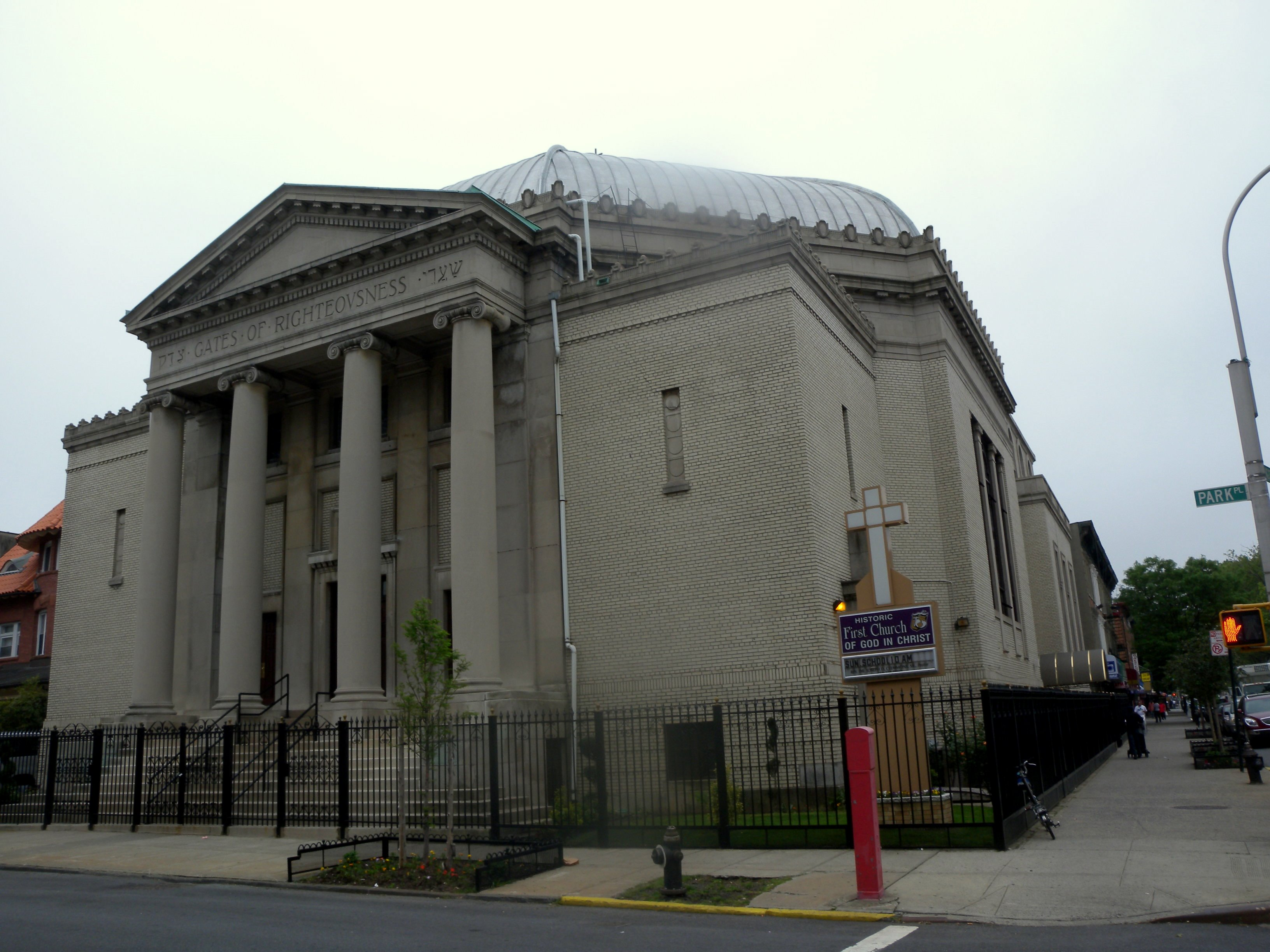 Looking southeast at former synagogue on a cloudy day. ZIP 11213.